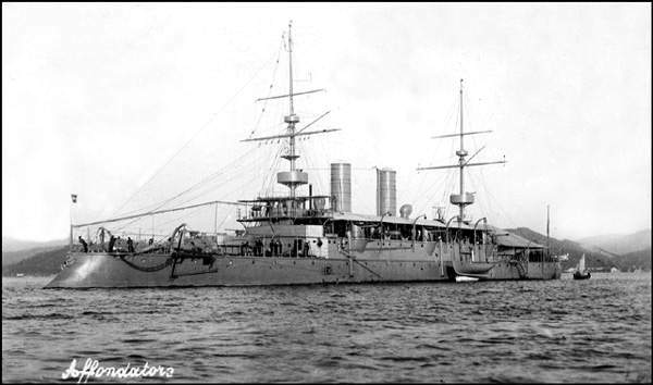 Italian Ironclad Affondatore, launched 1865, serving 1866 to 1907